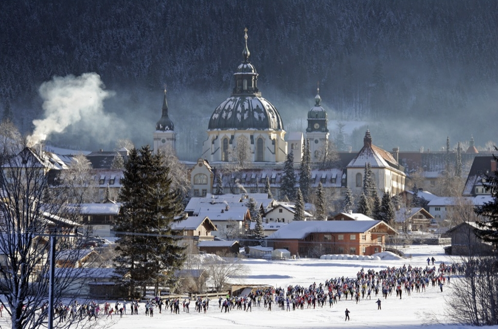 The country skiers field before Ettal